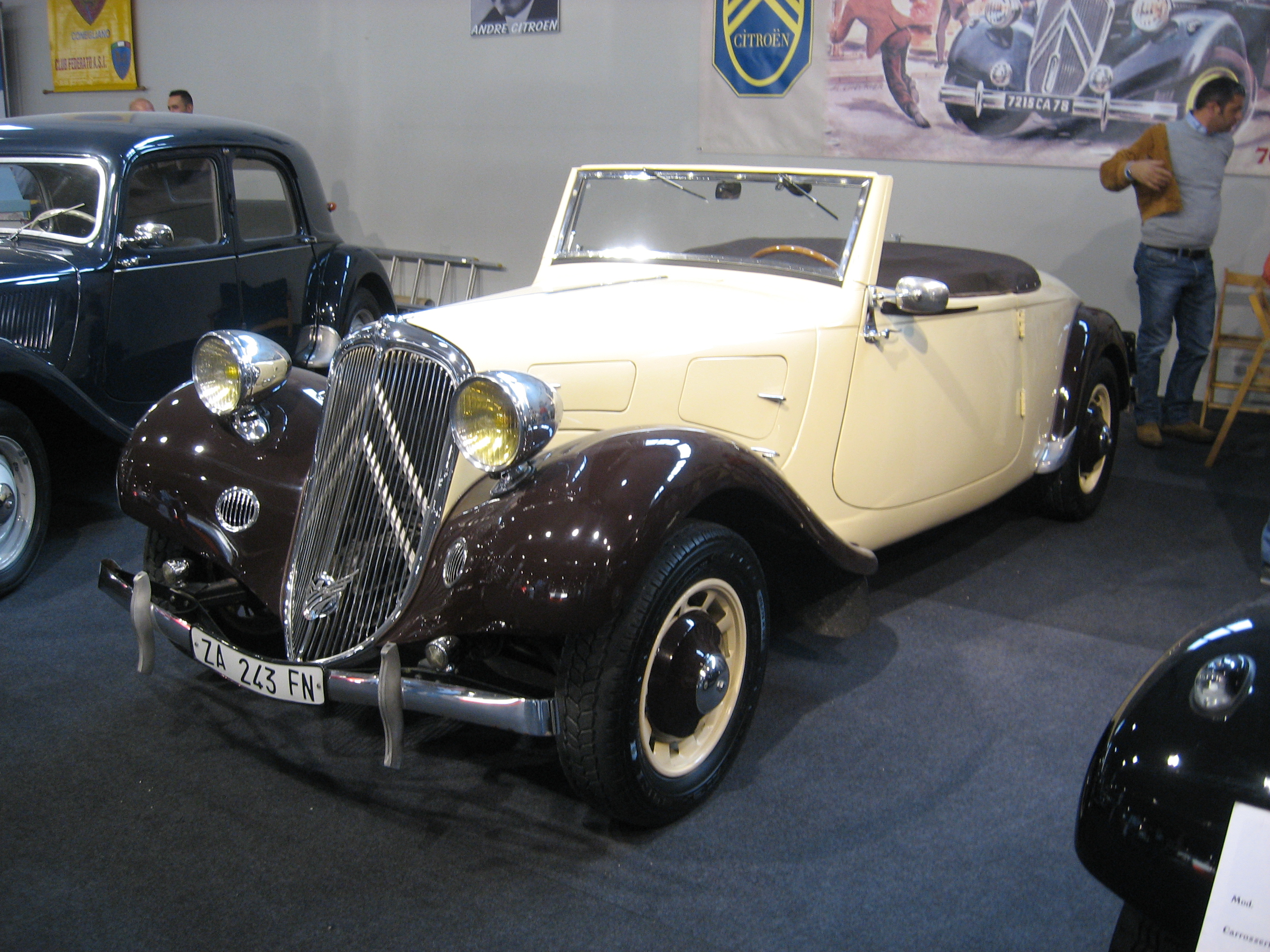 Subject: Citroën Traction Avant Date:October 26th, 2008 Event: Auto e Moto d'Epoca 2008 Place/Country: Padova, Italy I release all rights in the public domain.